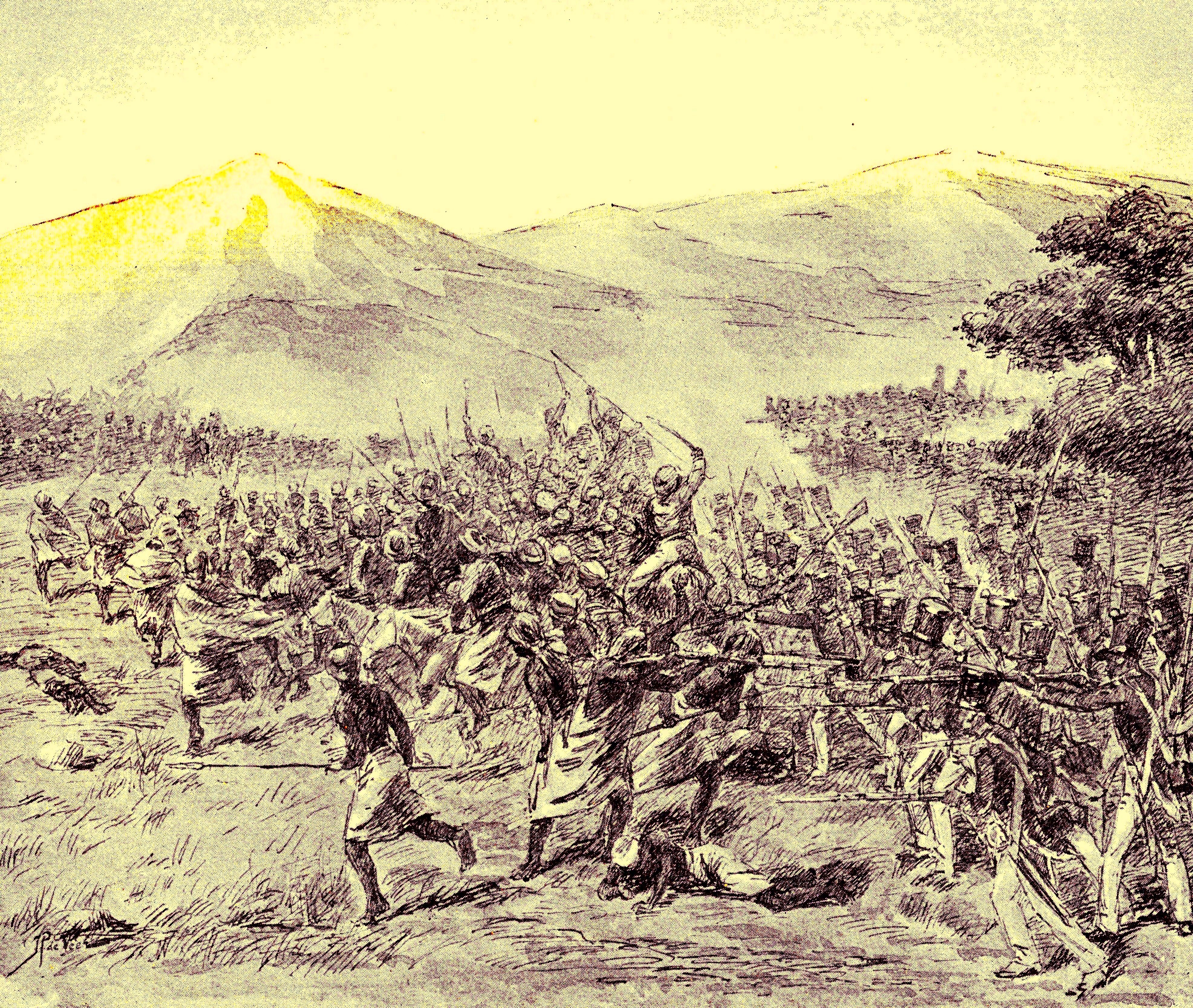 Aanval van de colonne Le Bron de Vexela op Diepo Negoro nabij Gawok